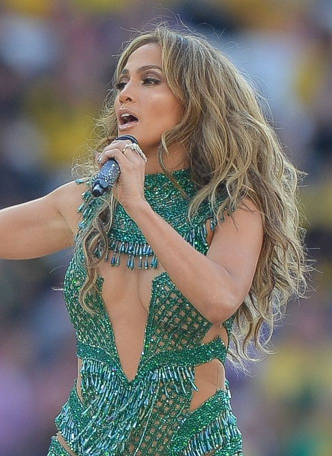 The opening ceremony of the FIFA World Cup 2014